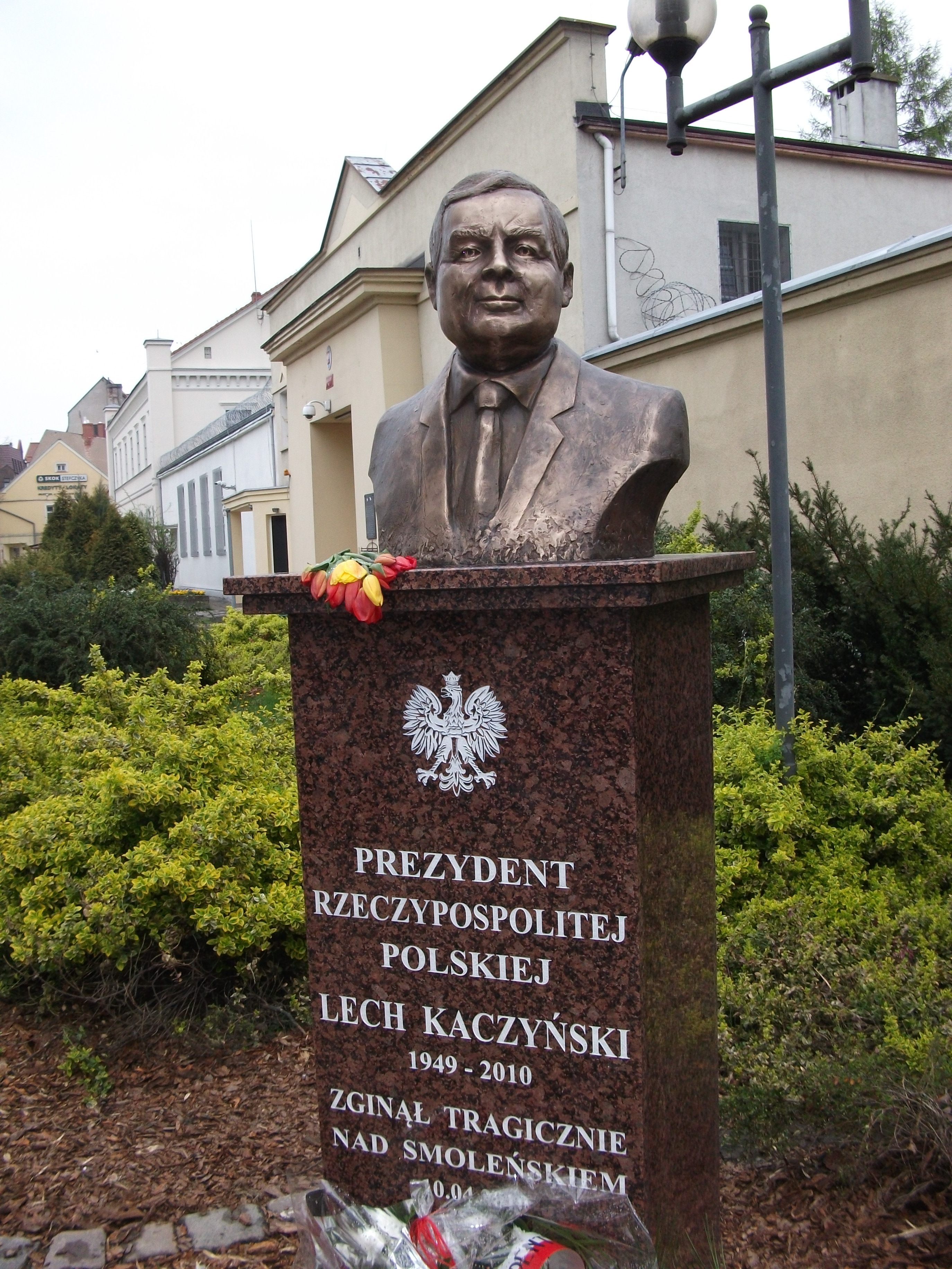 Lech Kaczyński monument in Grudziądz, Poland